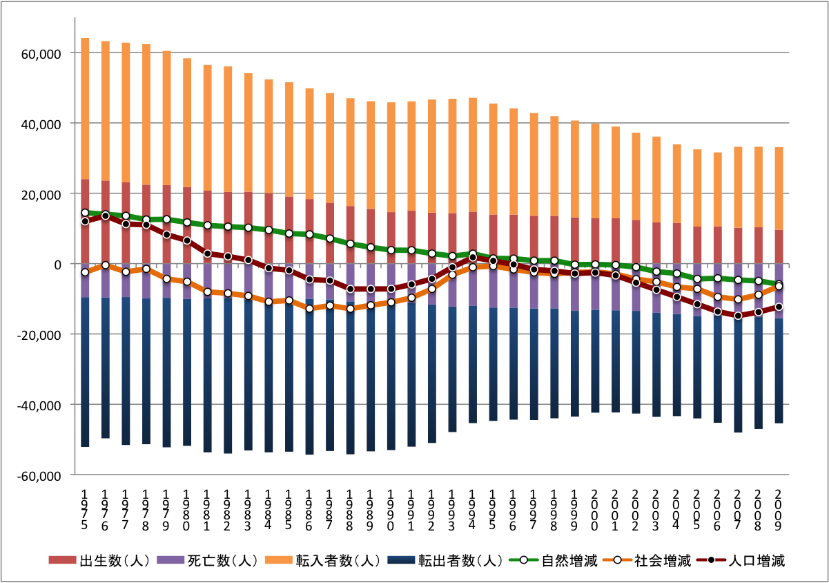 Demographic movement Aomori 2009